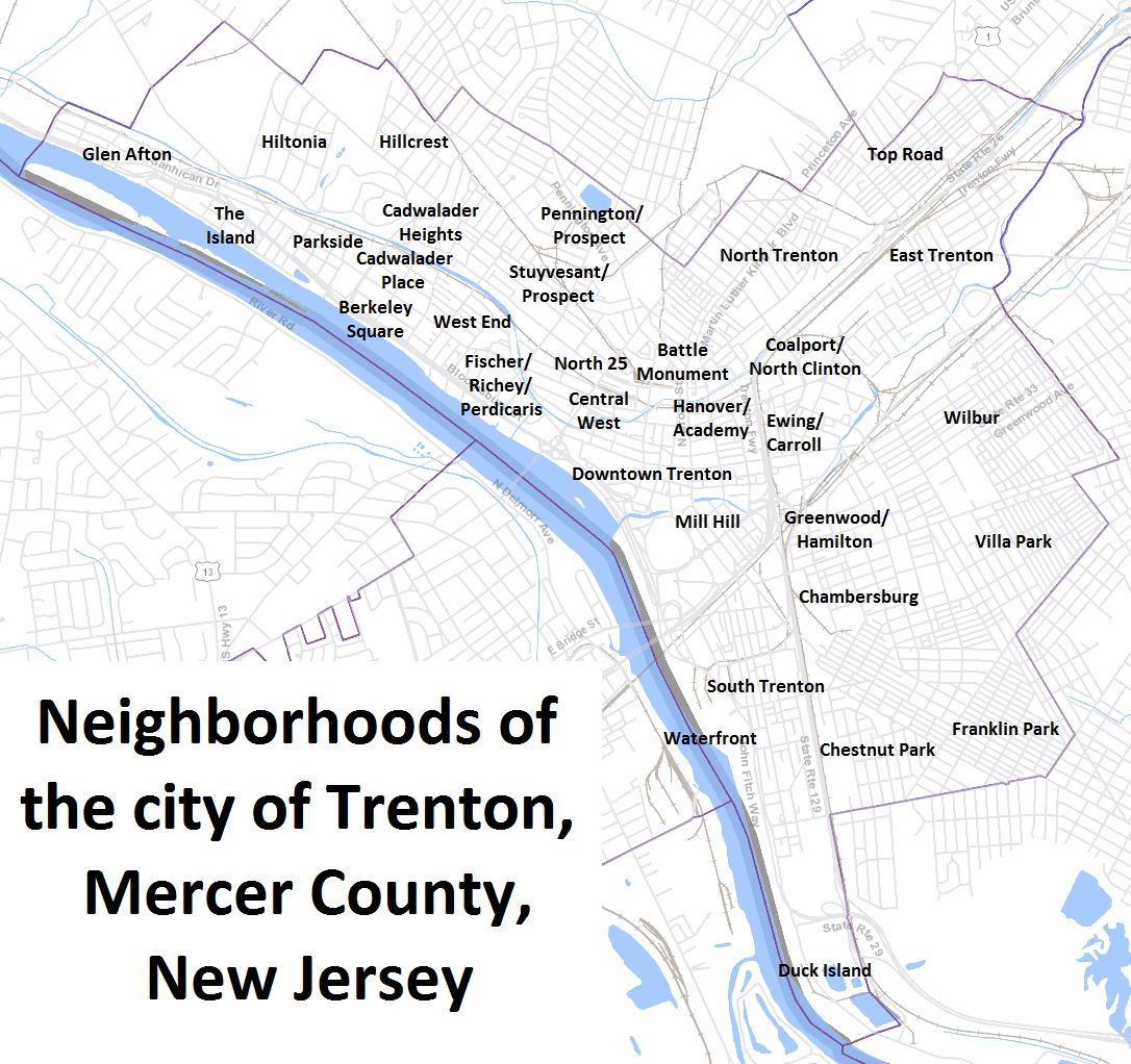 Map of neighborhoods in Trenton, New Jersey. Background map from US Census Bureau, altered with the addition of neighborhood names.